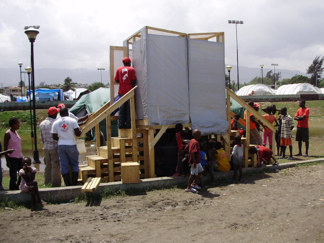 Photo by William Carter Senior Officer, Water, Sanitation and Emergency Health Unit (WatSan/EH) International Federation of Red Cross and Red Crescent Societies from 2011 but obtained May 2012